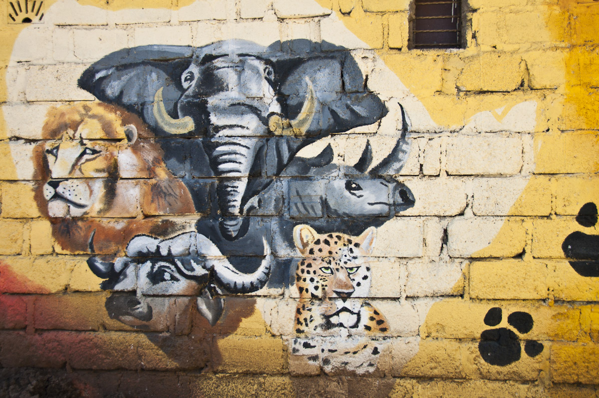 Graffiti in Nanyuki